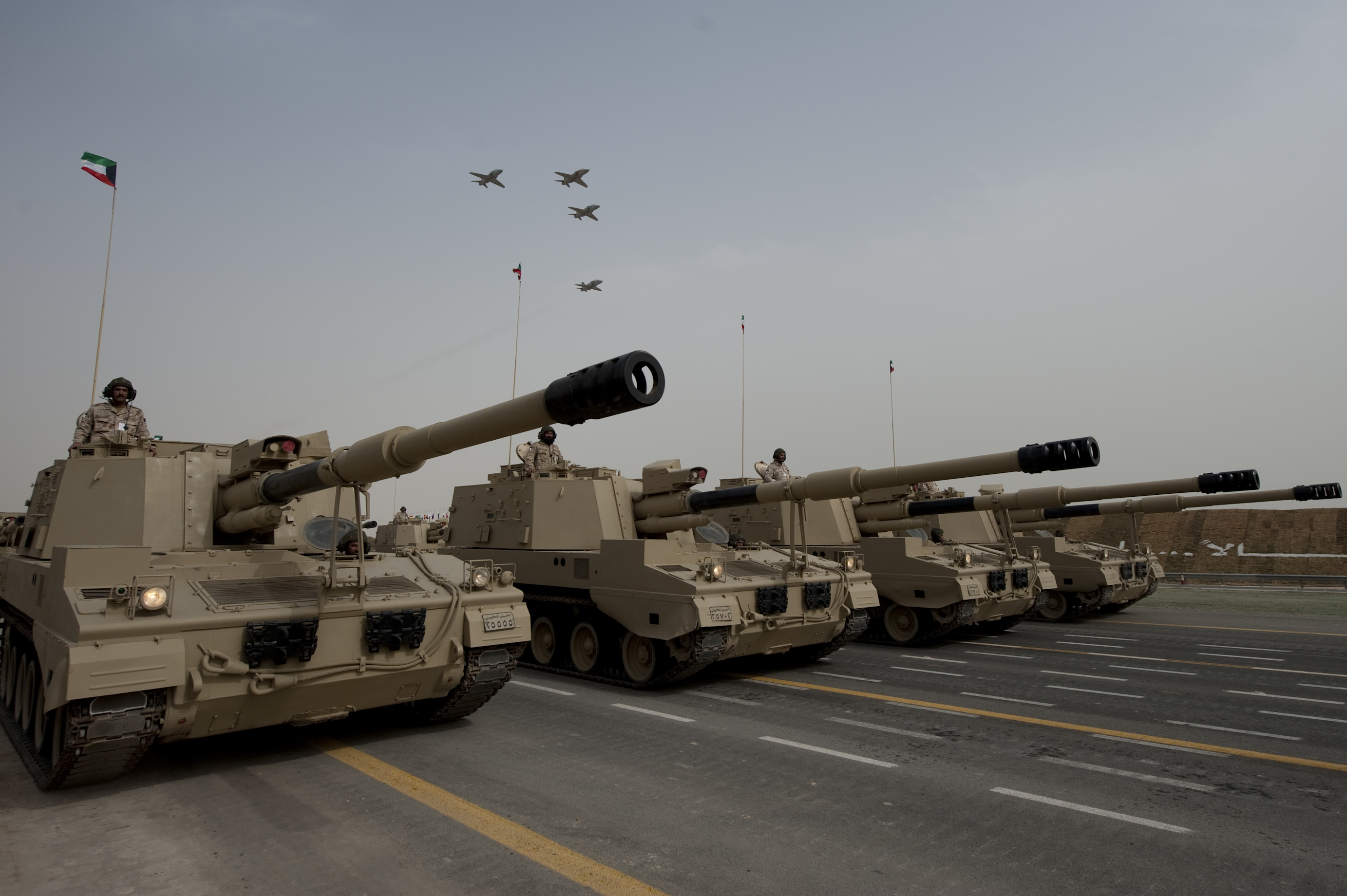 Kuwaiti PLZ-45 Self-propelled Guns roll and jets fly during the Kuwaiti National Day military parade on Feb. 26, 2011. The parade was part of celebrations that marked the 50th anniversary of their independence, and the 20th anniversary of their ousting of Saddam Husseins forces from their country during the first Gulf War. (DoD photo by Mass Communication Specialist 1st Class Chad J. McNeeley/Released)